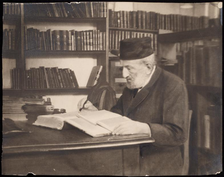 The Bohemian Hebraist Moritz Steinschneider writing at his desk.